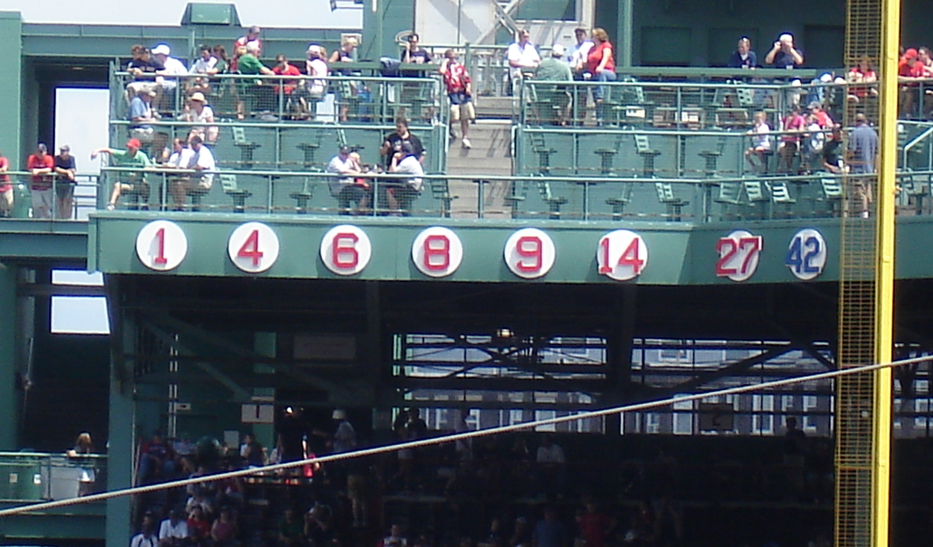 Retired Numbers of the Boston Red Sox as displayed on the Right Field facade of Fenway Park